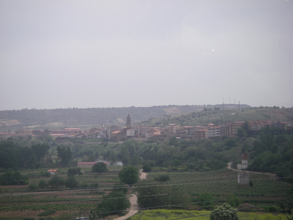 View of Cenicero (La Rioja, Spain)